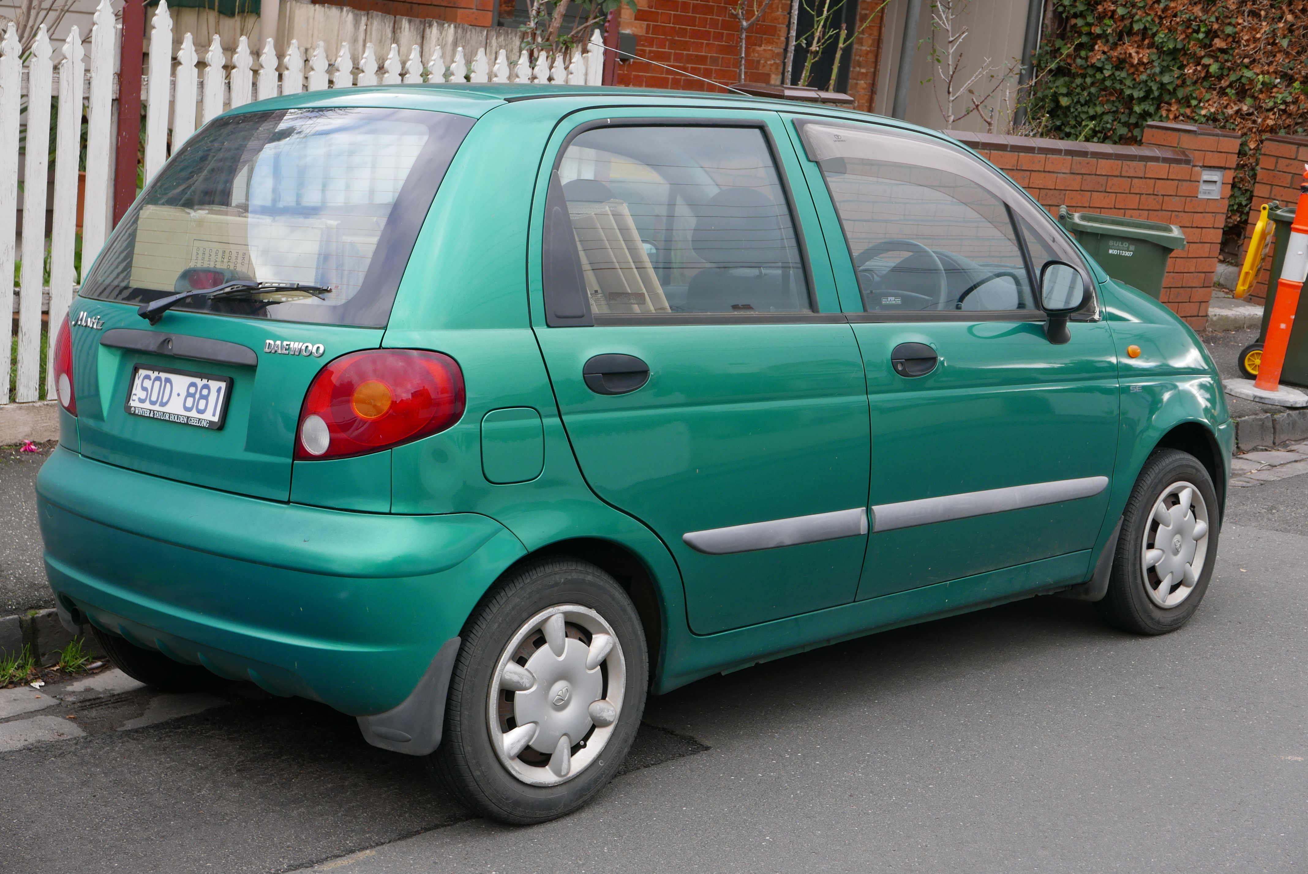 2003 Daewoo Matiz (M150) SE hatchback. Photographed in Brunswick, Victoria, Australia. Vehicle registration enquiry resultsJurisdictionVictoriaRegistrationSOD881Chassis codeKLA4M11BE3C909182Engine code044244KA1Compliance date2003-08Year of manufacture2003